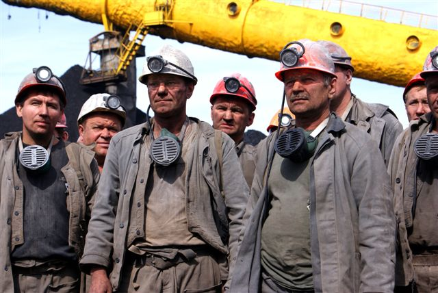 Miners